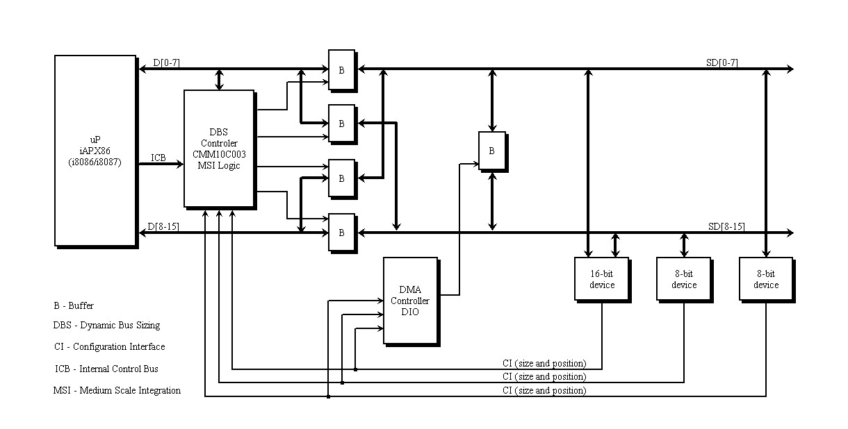 Architecture of IZOT 1036C mfdification